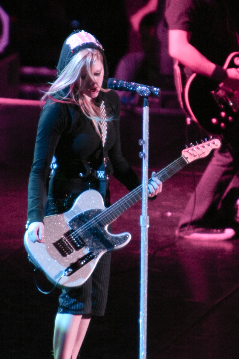 Best Damn Tour at Beijing